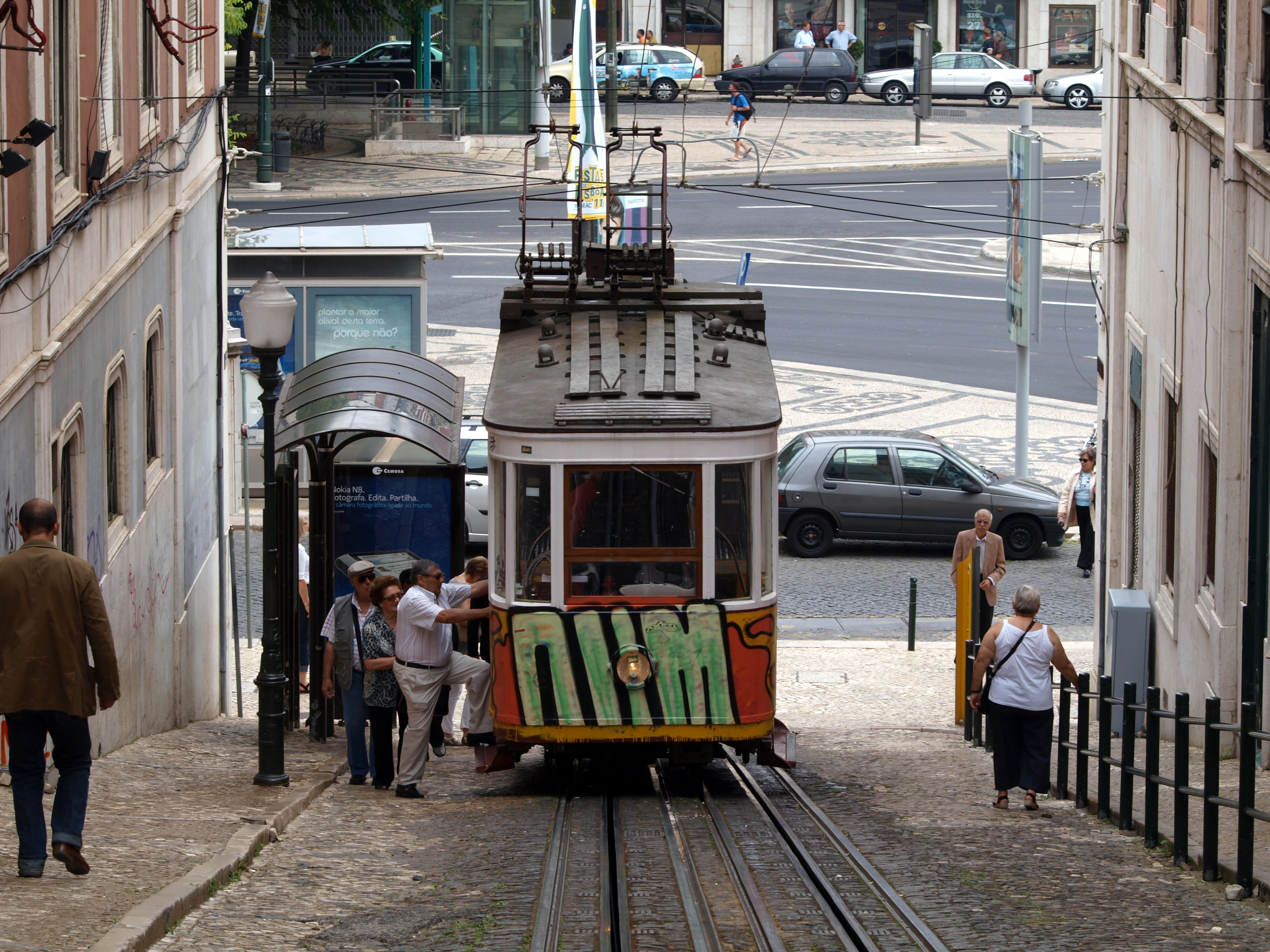 Photographed in Portugal.